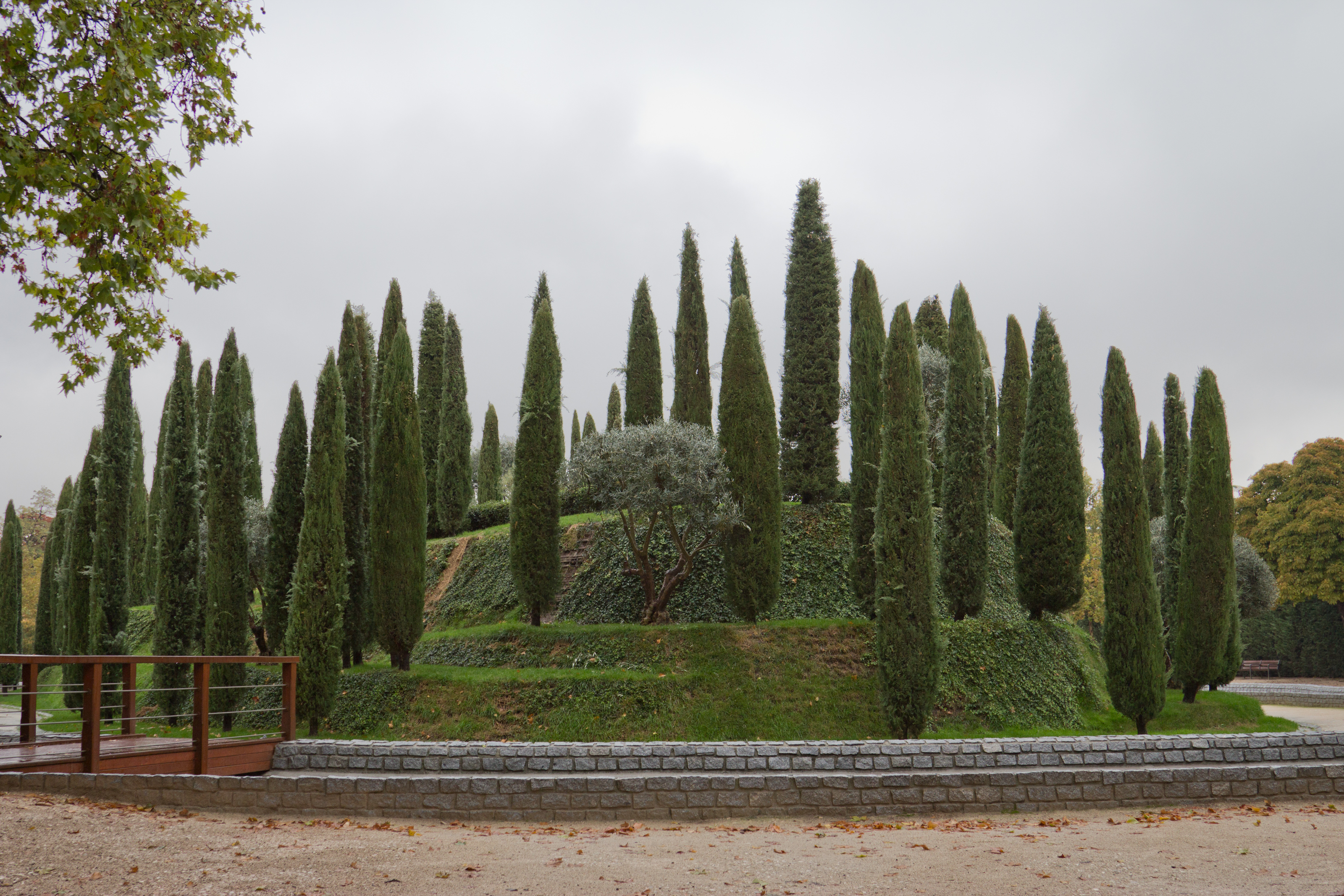 Forest of Remembrance, park of El Retiro, Madrid, Spain.